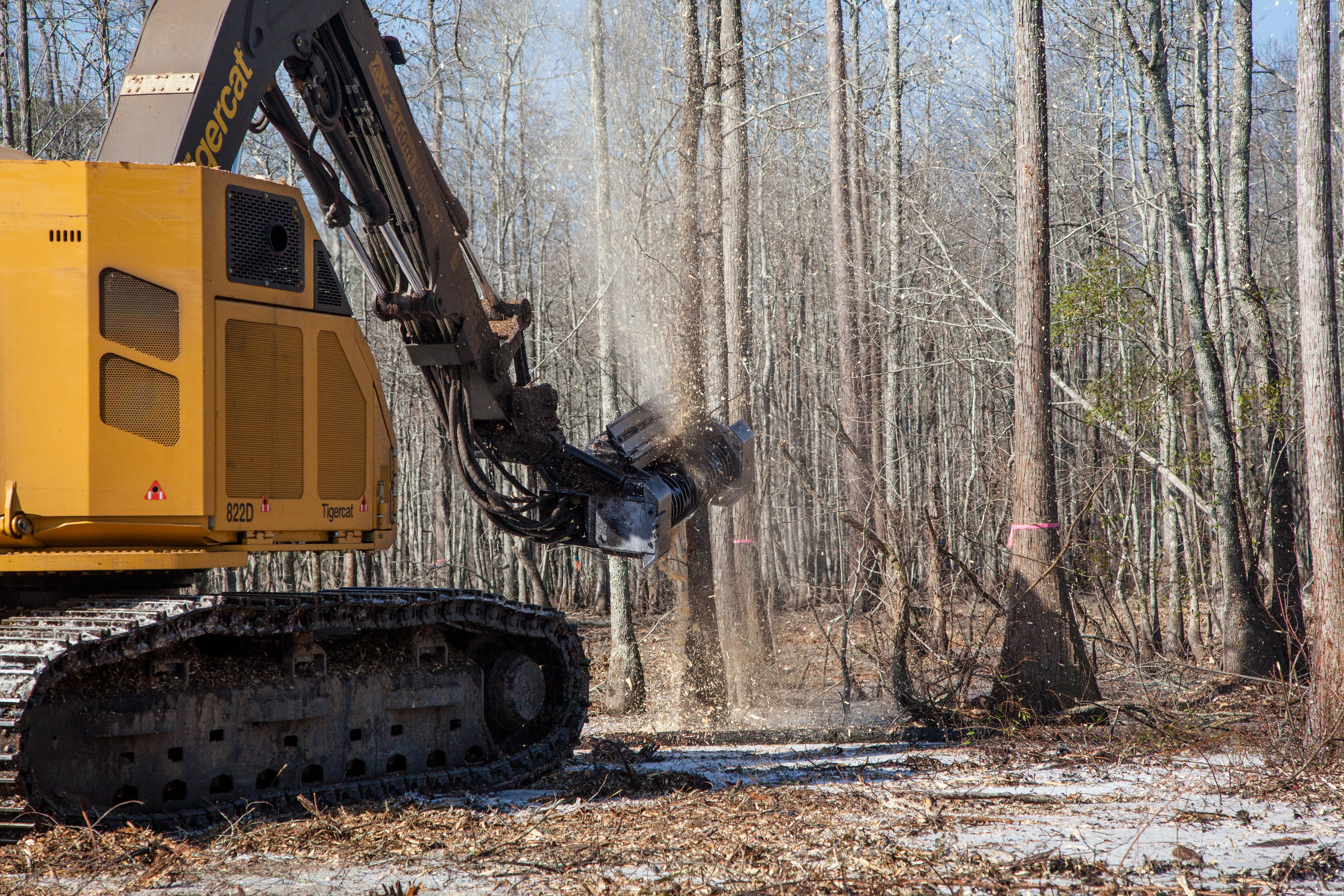 An example of a tilting bracket on excavator-style carrier